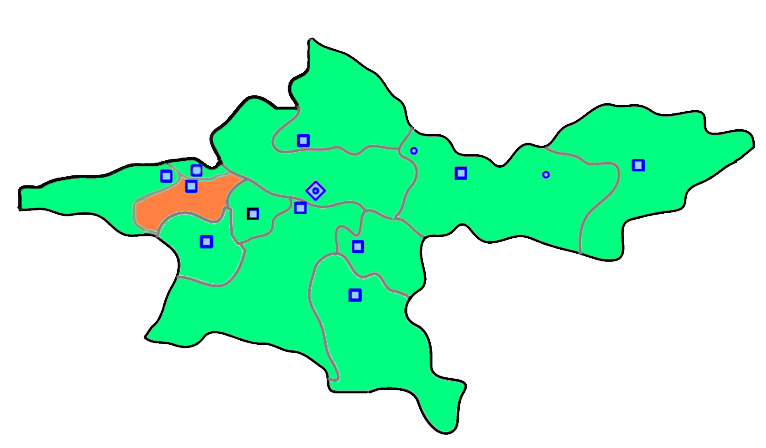 Shariar county of the Tehran Province in Iran. Taken from: and editec by Mani Parsa.